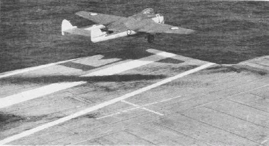 A Royal Navy De Havilland Sea Vampire making a touch-and-go landing on the U.S. aircraft carrier USS Antietam (CVA-36). The Sea Vampires and other Royal Navy aircraft conducted trials on Antietams angled deck for four days while flying out of Royal Naval Air Station Ford, Sussex (UK), in 1953.